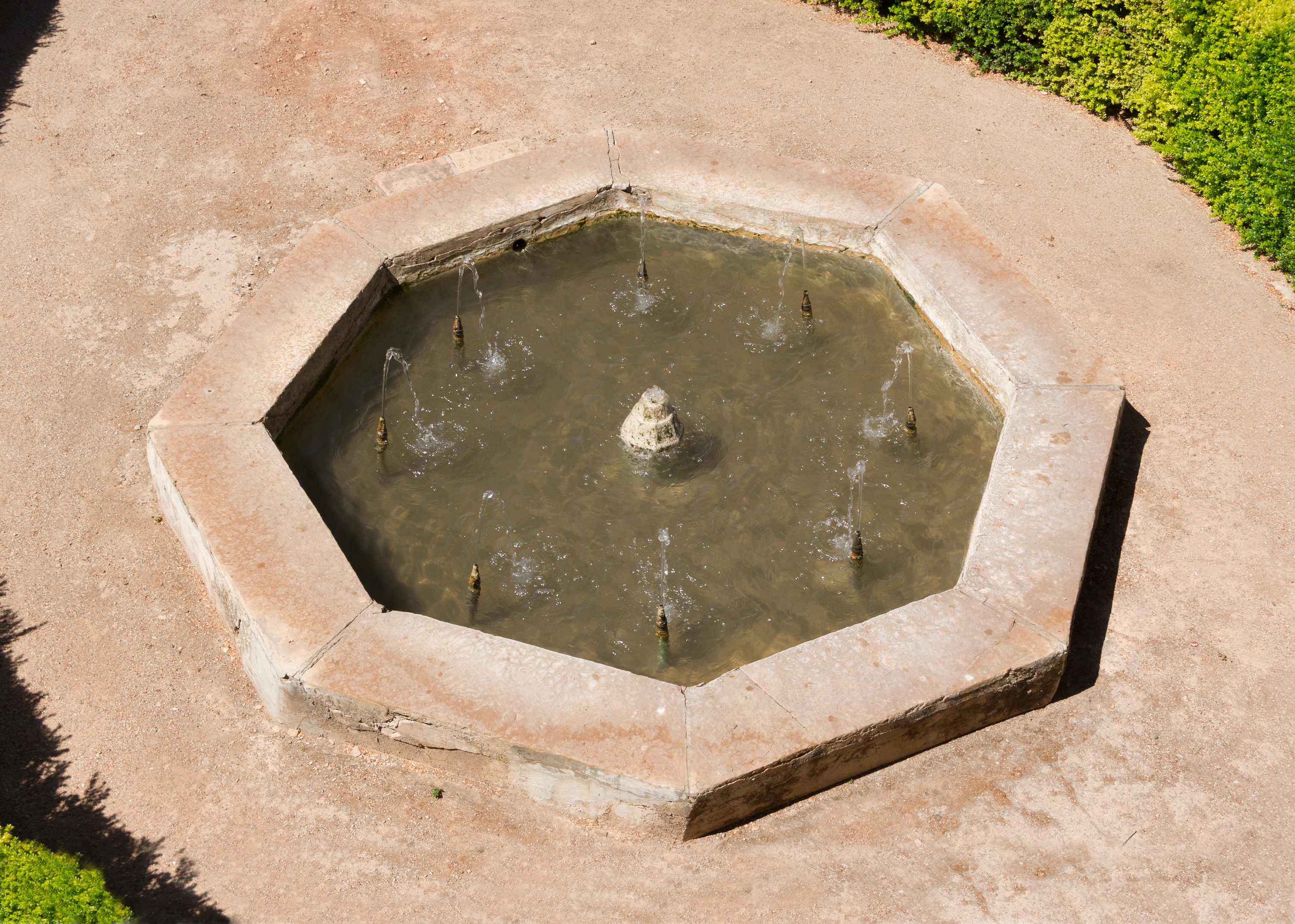 A fountain, "Generalife" gardens, Granada, Spain.